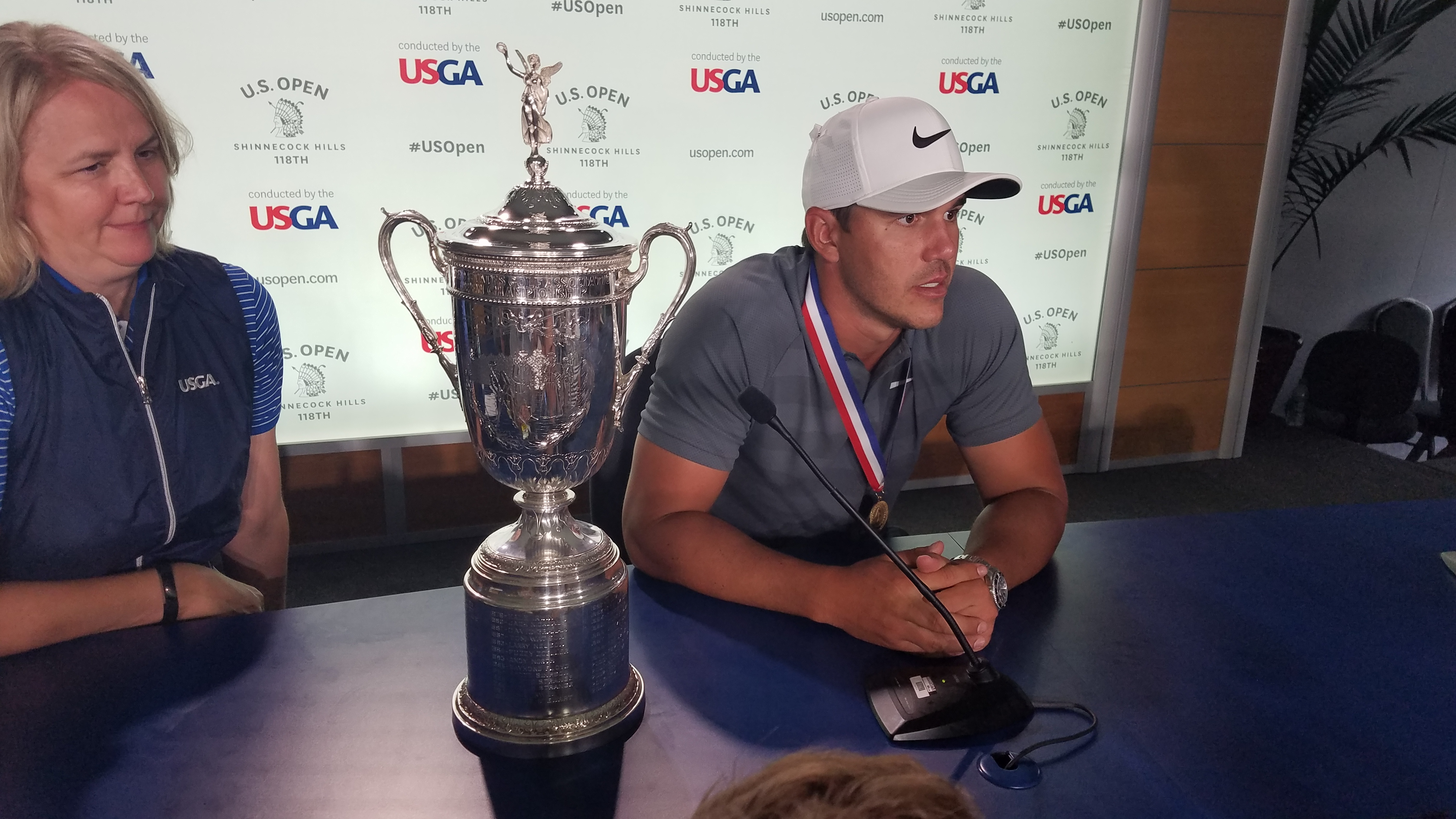 Brook Koepka addresses the media following his victory in the 2018 U.S. Open at Shinnecok Hills, NY.